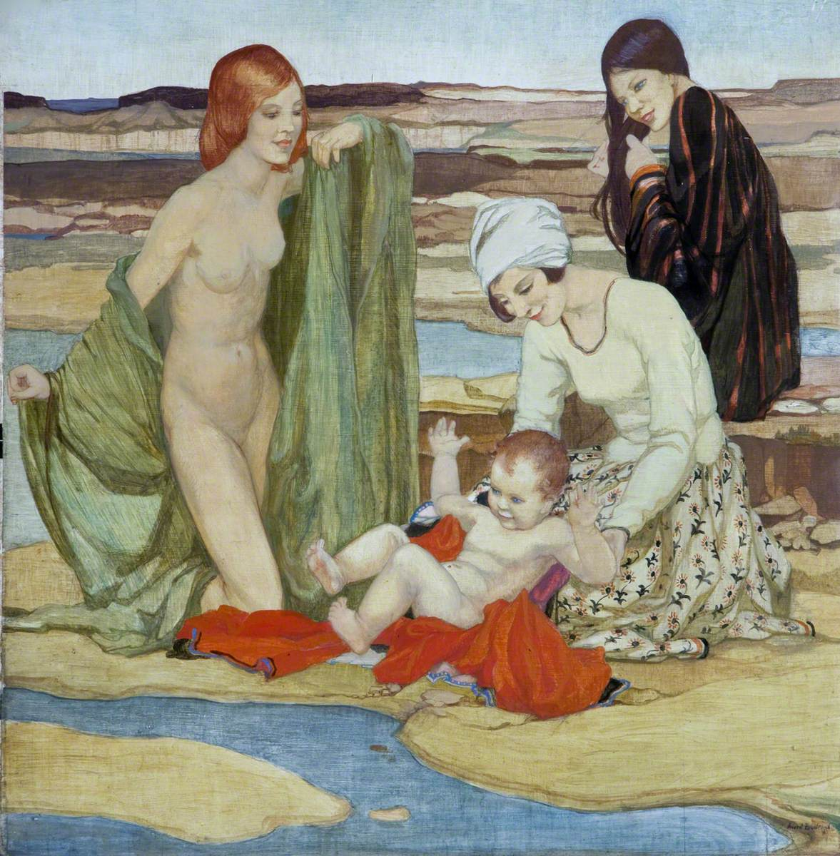 Burleigh, Averil; Sand Dunes; National Museums Northern Ireland; say 1930